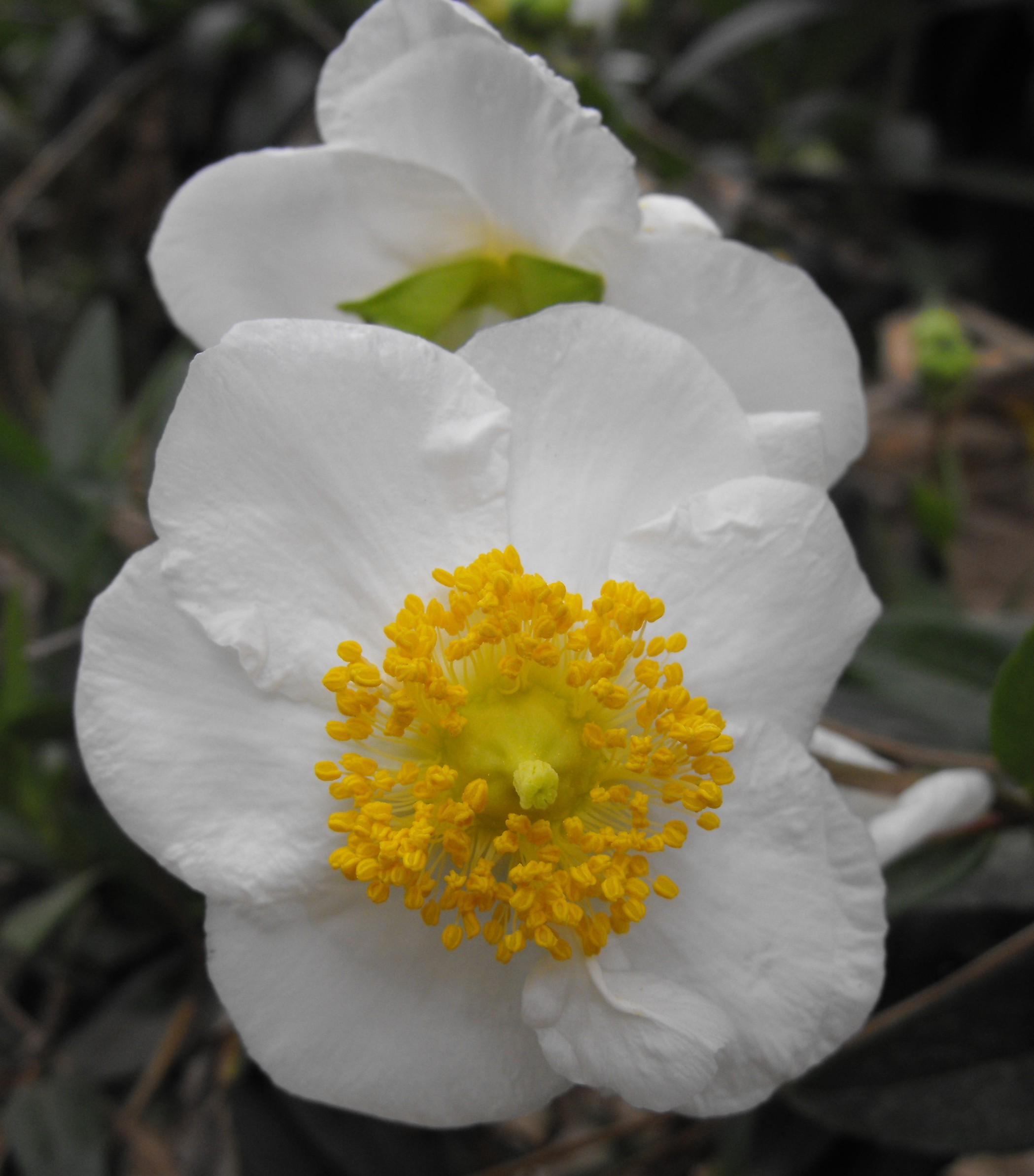 Carpenteria californica at Rancho Santa Ana Botanic Garden in Claremont, California, USA. Identified by sign.